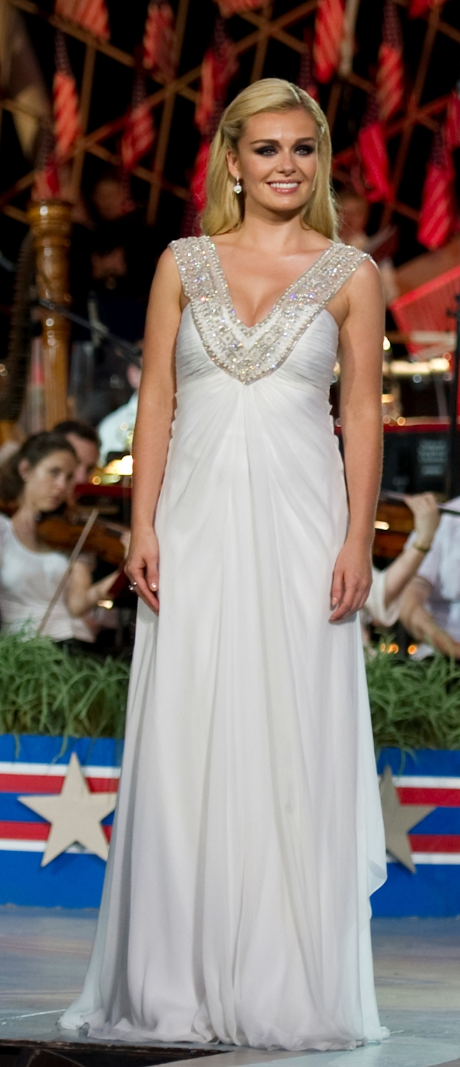 Katherine Jenkins thanks the audience for their participation in the National Memorial Day Concert on the West Lawn of the U.S. Capitol in Washington, D.C on May 30, 2010.